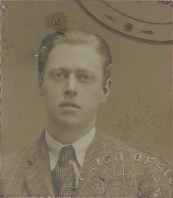 United Kingdom passport issued to travel writer Robert Byron (1905-1941). Byron is listed as an 'undergraduate' at the time of issuance. Black-and-white, 15 cm. Robert Byron Papers, General Collection, Beinecke Rare Book and Manuscript Library, Yale University, New Haven, Connecticut.